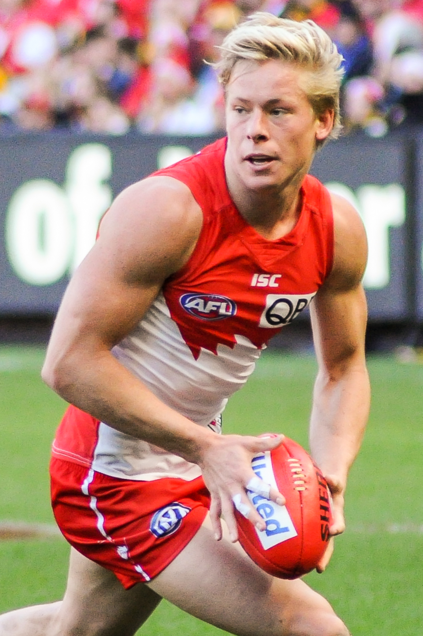 Isaac Heeney during the AFL round thirteen match between Richmond and Sydney on 17 June 2017 at the Melbourne Cricket Ground in Melbourne, Victoria.